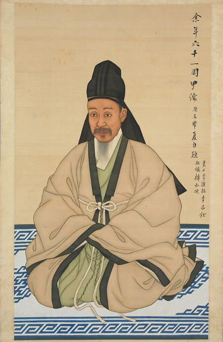 Portrait of Heungseon Daewongun, Yi Haeung wearing Bokgeon and Simeui